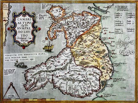 Cambriae Typus, the first published map of Wales as an individual country.